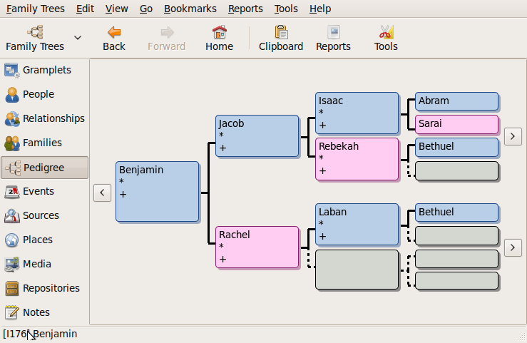 A screenshot of GRAMPS in "Pedigree" view, showing four generation of Genesis (Benjamin-Abram).